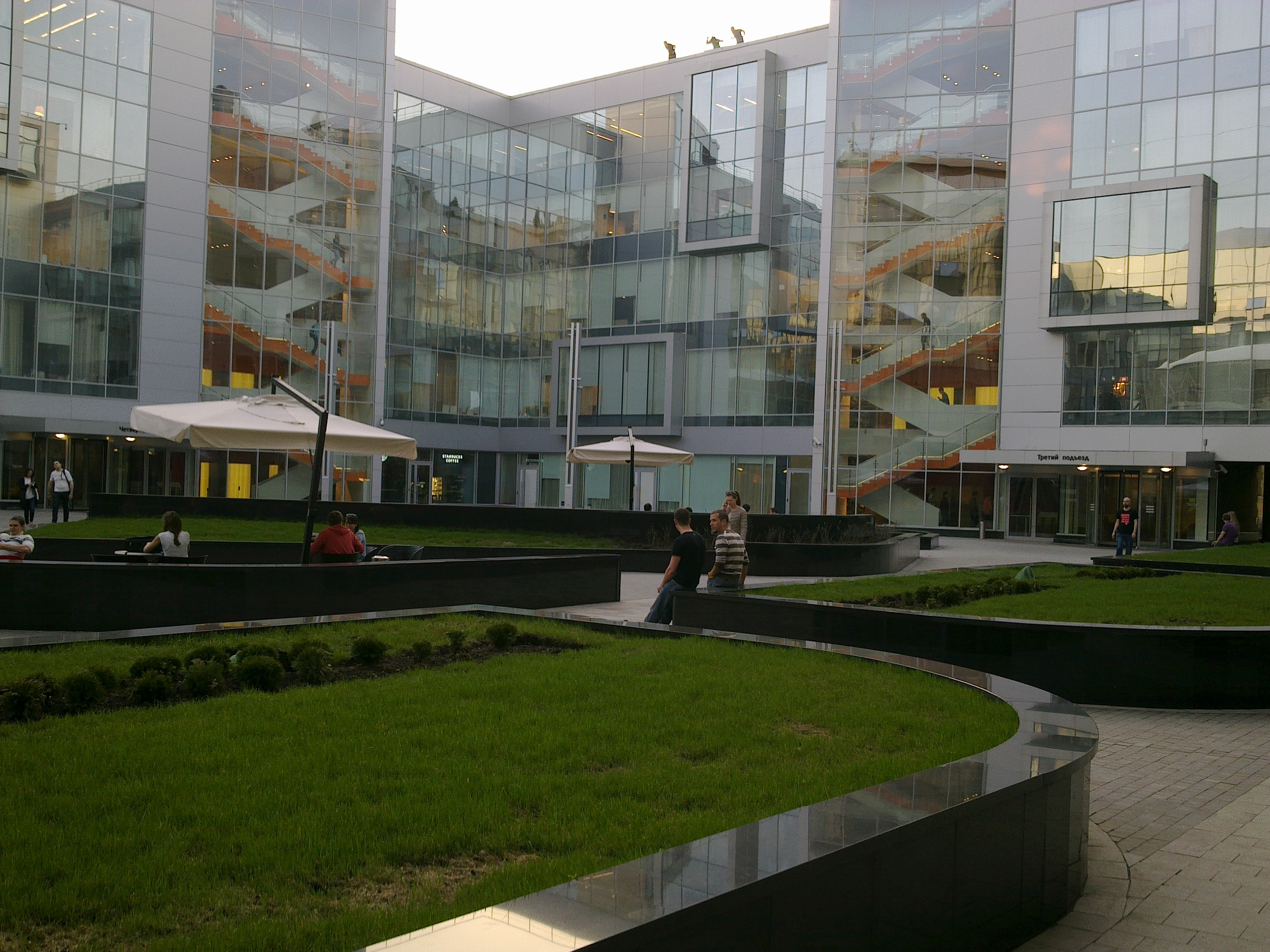 Courtyard of Yandex head office building (Morozov business center, Moscow)